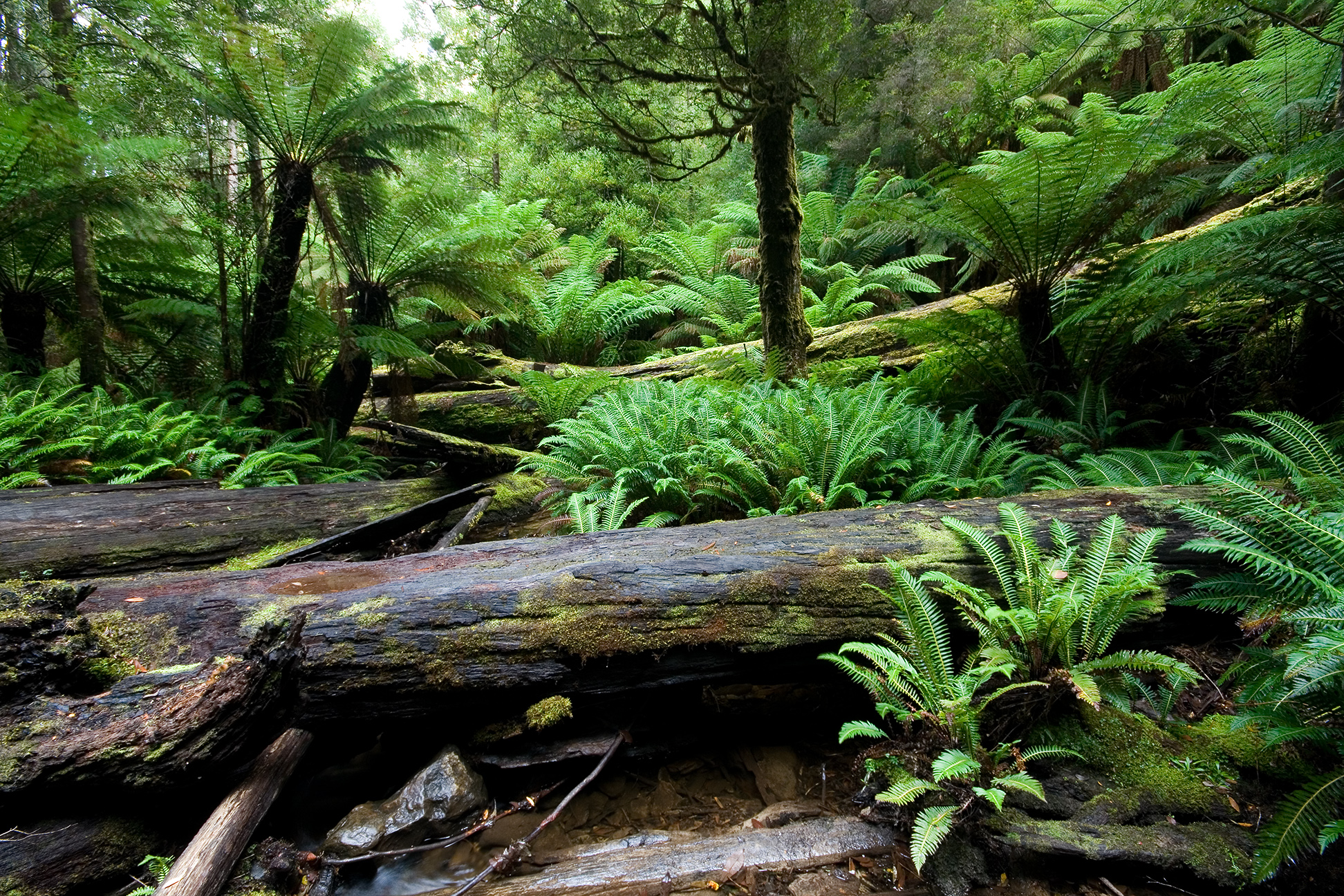 The temperate rainforest vegetation behind Marriott Falls, Mt Field National Park, Tasmania, Australia Camera data Camera Canon EOS 400D Lens Sigma 10-20mm F4-5.6 EX DC HSM Filter Polariser Focal length 10 mm Aperture f/11 Exposure time 2.5 s Sensivity ISO 100